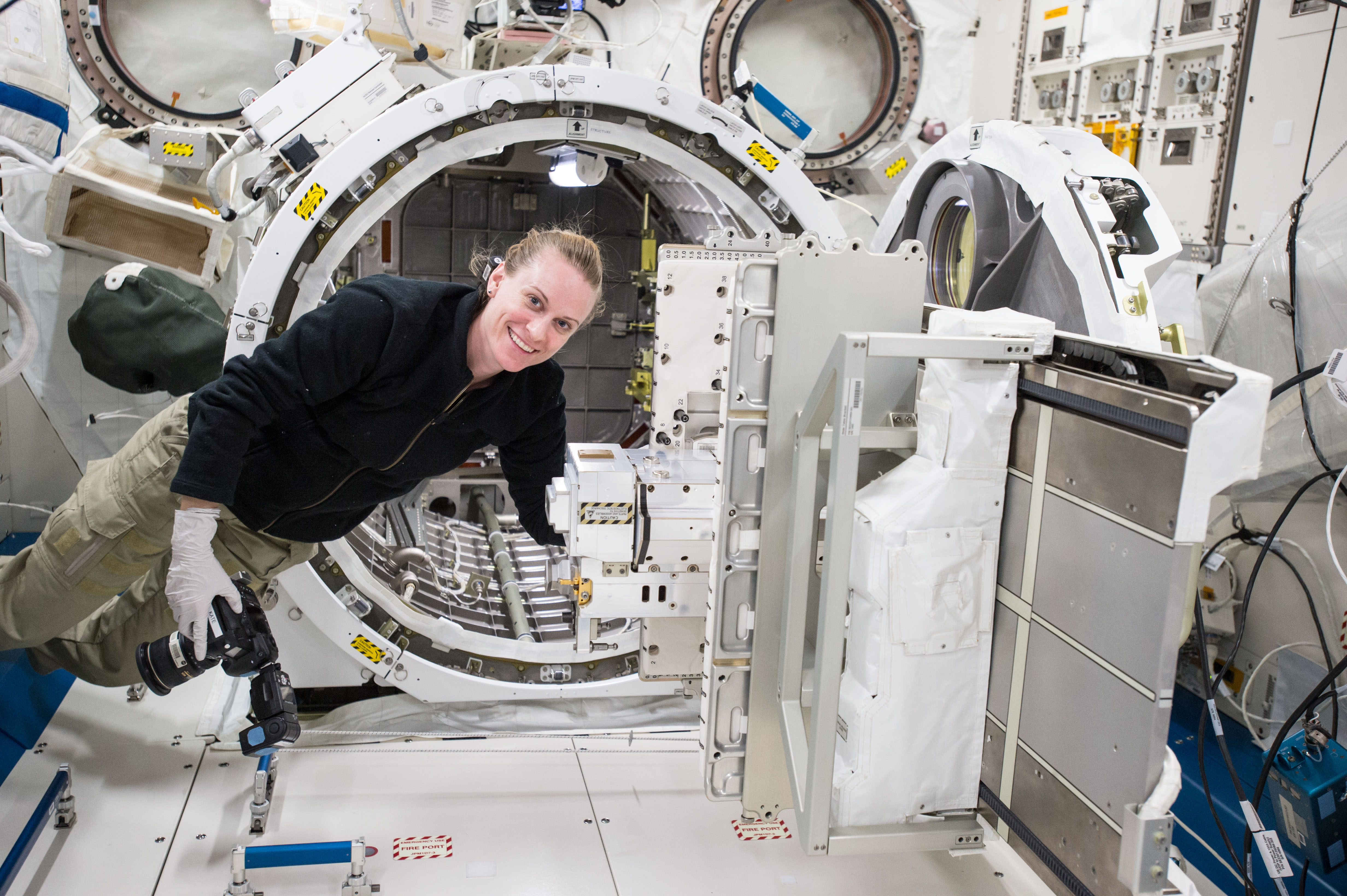 Expedition 49 crewmember Kate Rubins of NASA works with the airlock inside of Kibo, the Japanese Experiment Module. Rubins was installing the Robotics External Leak Locator (RELL), a technology demonstration designed to locate external ISS ammonia (NH3) leaks.